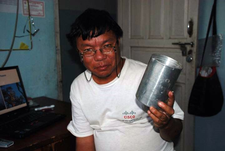 Mahabir Pun, a Nepalese social activist, spring 2010.